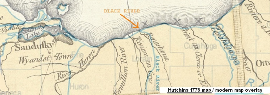 A section of Hutchins 1778 map, with an overlaid image of 20th century survey lines. The "Reneshoua" River matches the location of the Black River. (Notice how Hutchins surveyed the Lake Erie shore and mouths of the rivers fairly accurately; although the inland courses of the rivers were very roughly drawn. The "Riviere en Grys" would correspond to what is now named Beaver Creek. The "X X X" marked along the shoreline, designated the dangerous high cliffs that extend all along that stretch of shore. "Sandusky" refers to the British Fort Sandusky, not the village of Sandusky, which didn't exist until about 1820.)